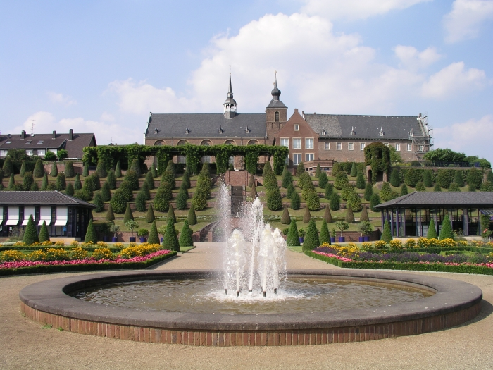 Cloister Kamp, Kamp-Lintfort